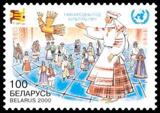 Stamp of Belarus